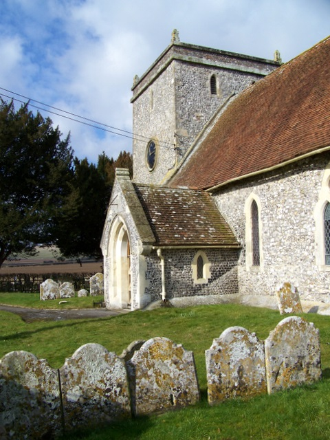 St Leonard's Church, Grateley The church has its origins in the 12th century with restoration carried out in 1851. The tower is 13th century and the porch was built in 1738.